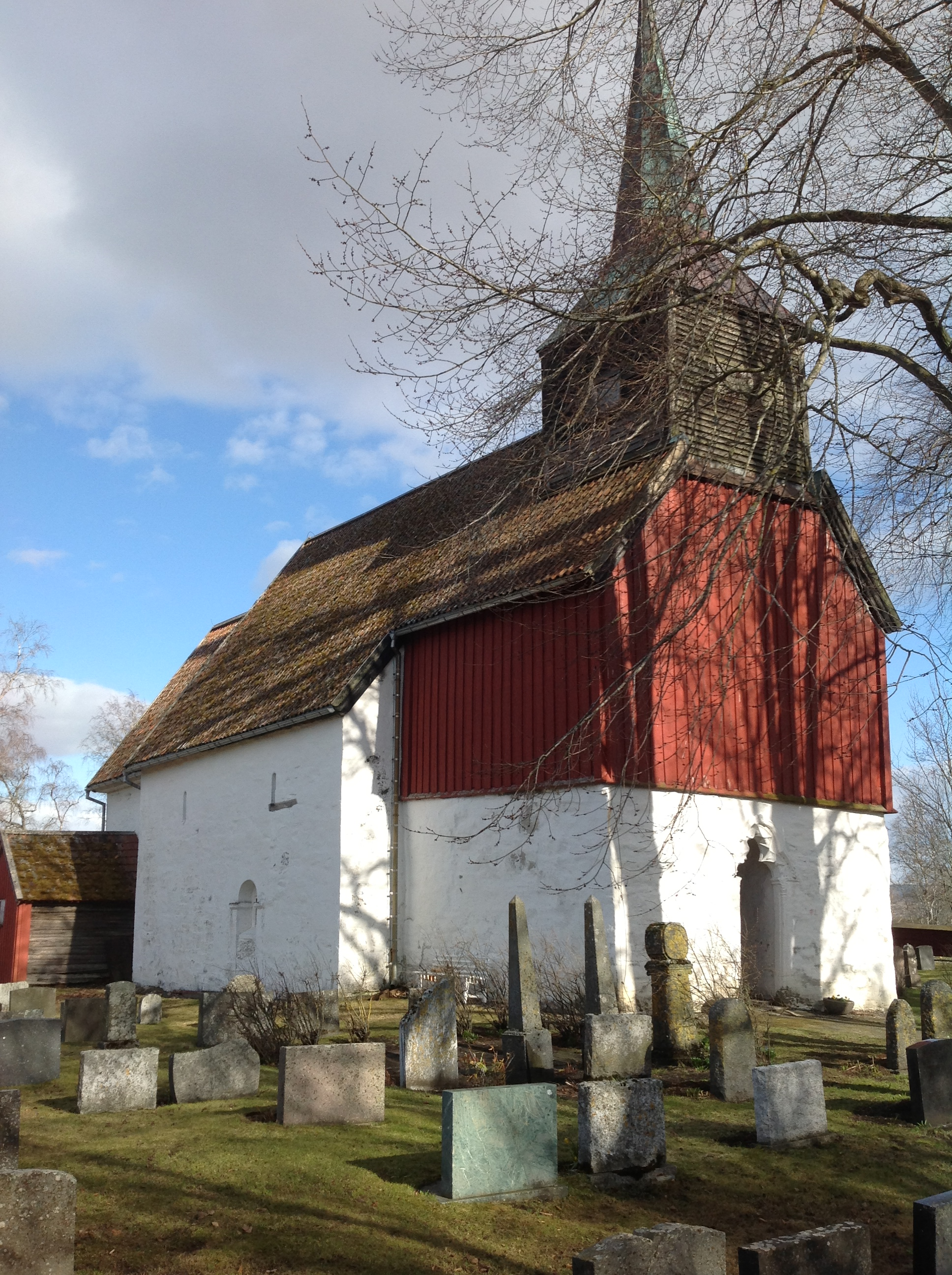 Norwegian medieval stone church Hustad kirke (Inderøy) (Hustad Church), seen from NW